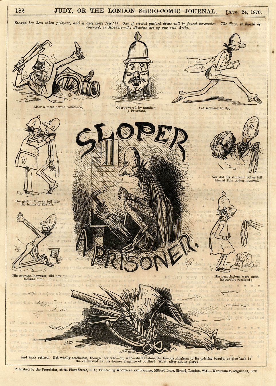 A page featuring Ally Sloper drawn (and probably written) by Mary Duval and published in Judy in the 1870's. For more details, see the title.